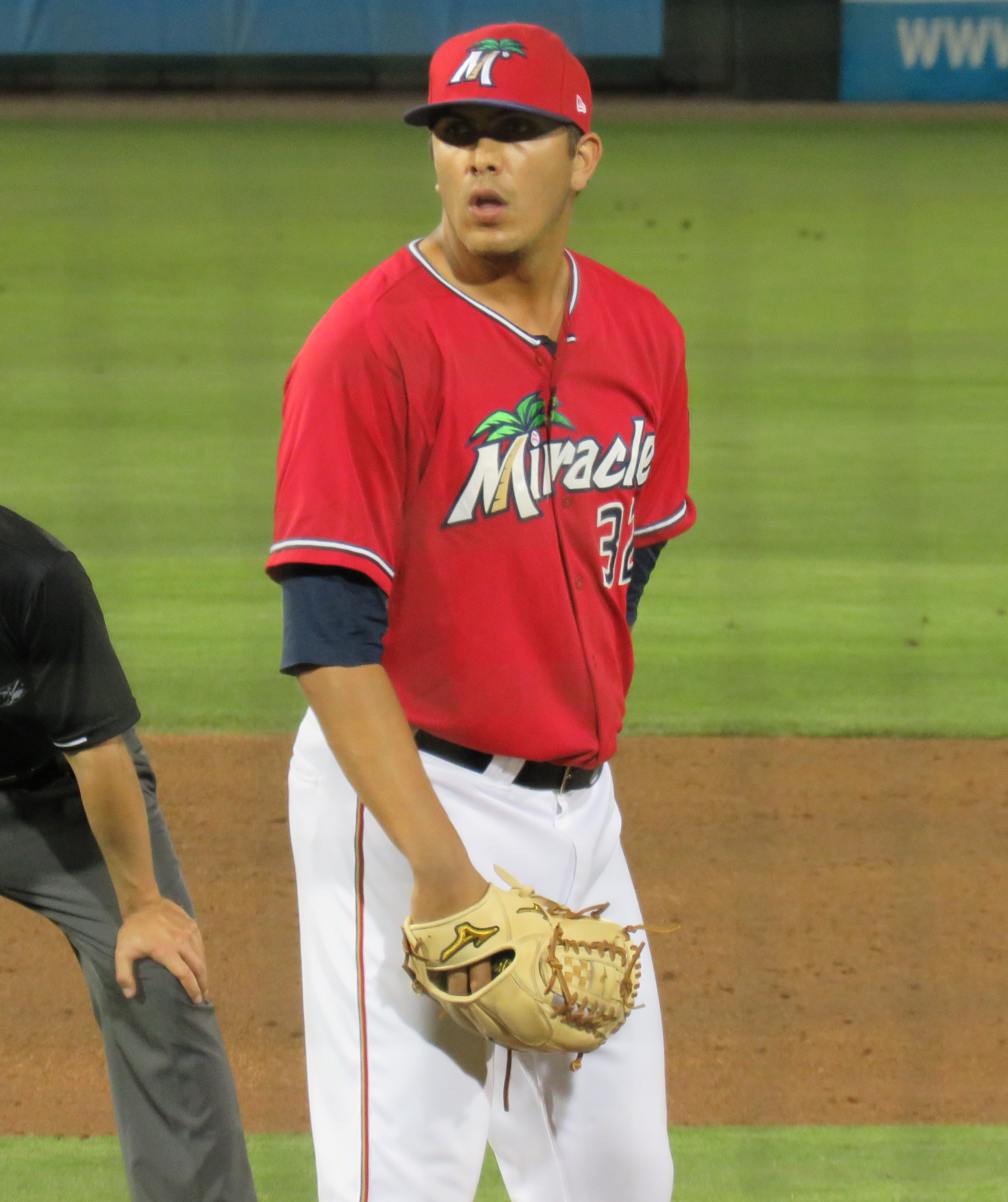 Vasquez ready to pitch